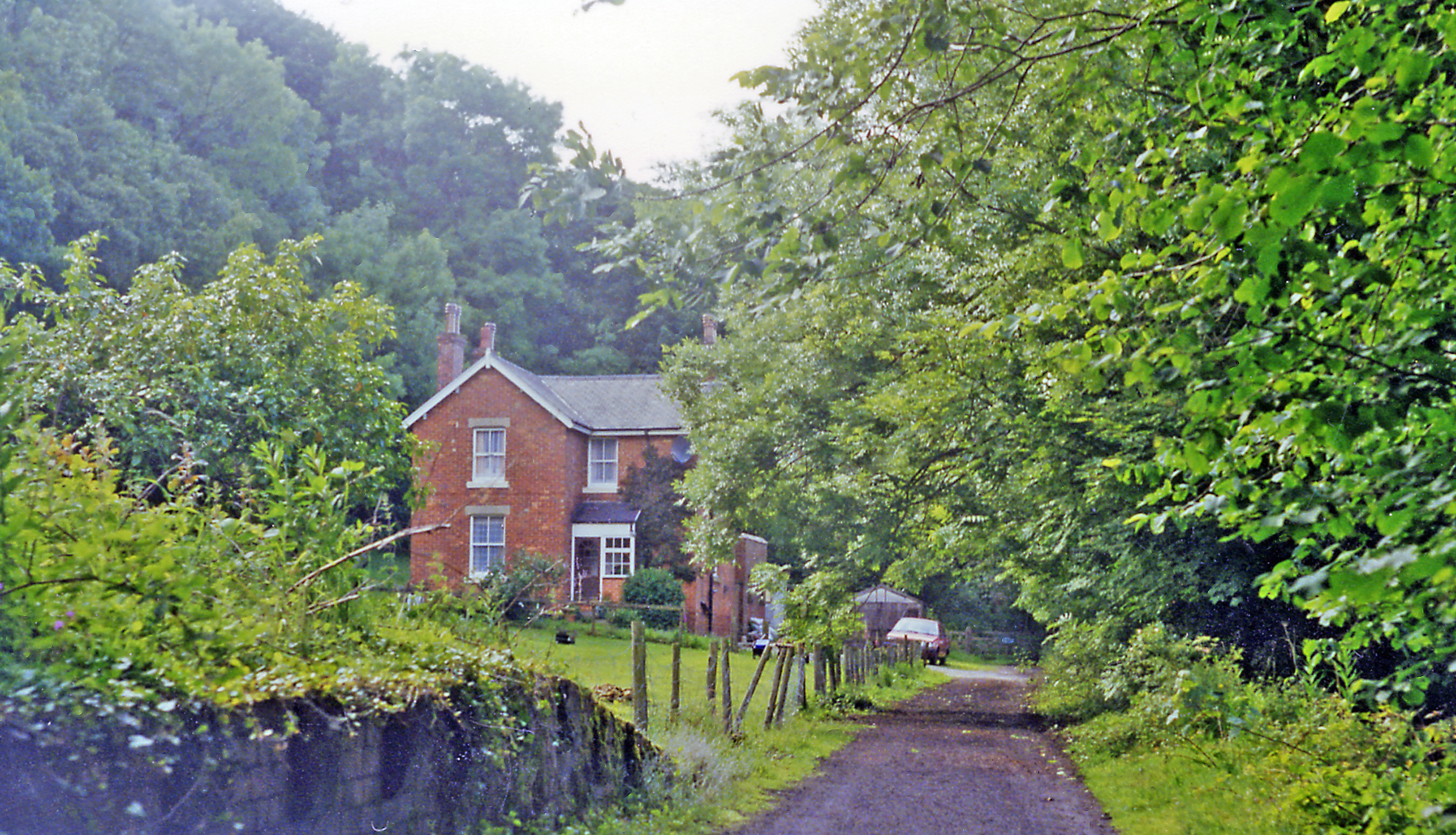 Hayburn Wyke: former station. View NW, towards Whitby and Middlesbrough: ex-NER Scarborough - Whitby West Cliff - Middlesbrough line, closed 8/3/65 (Scarborough - Whitby). The station is now a private house - in a lovely setting